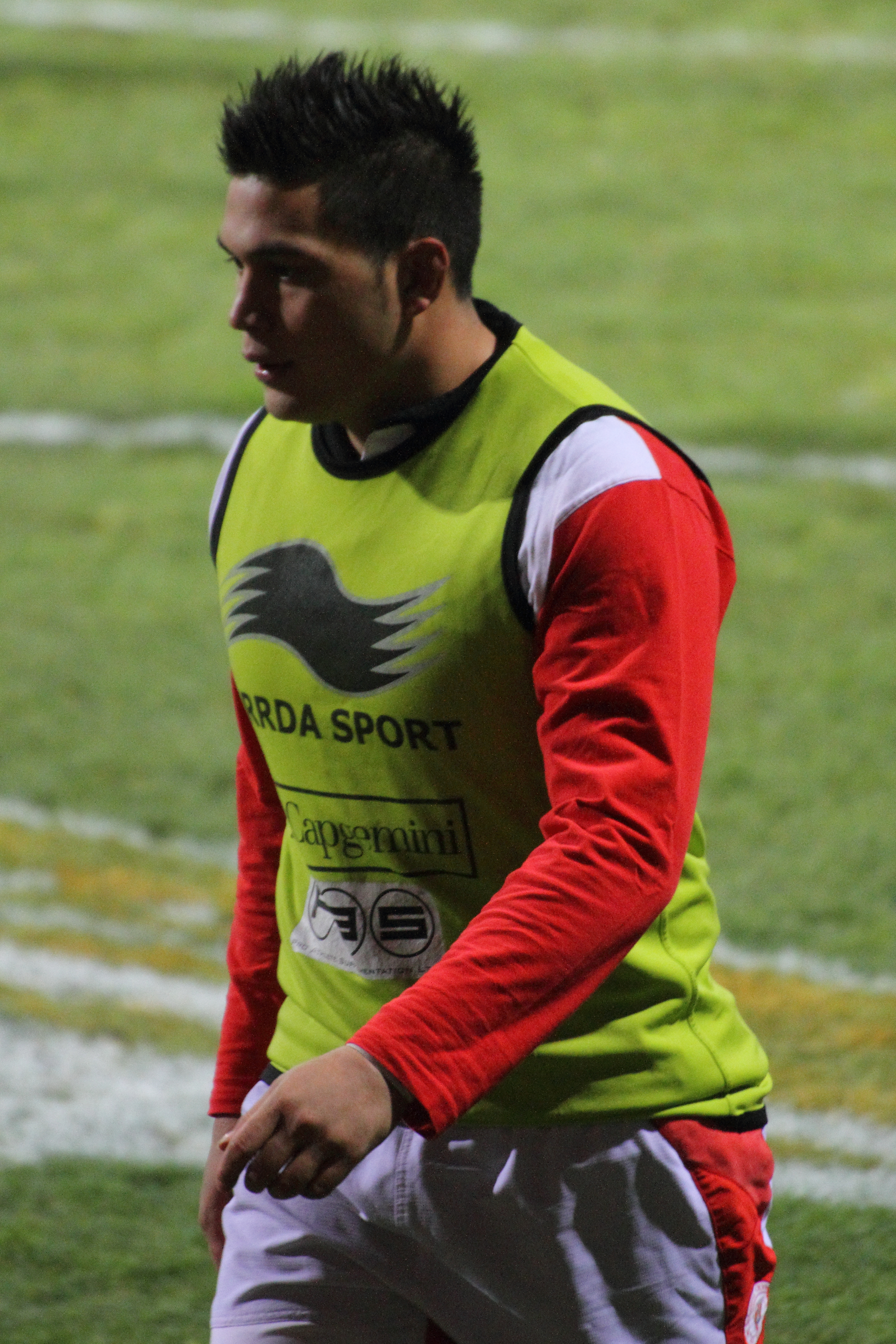 Top 14 — 25 January 2013, Stade Ernest-Wallon. Match between: Stade toulousain — Biarritz Olympique